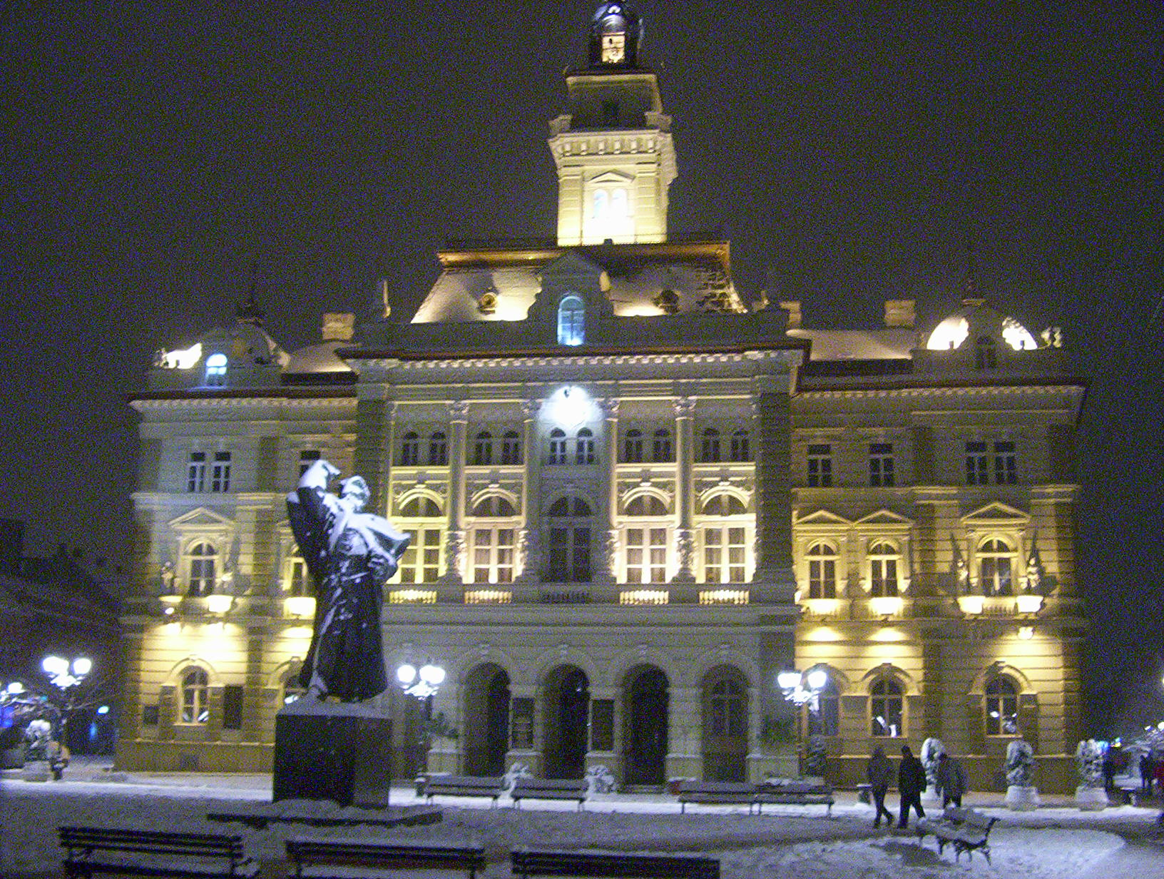 Novi Sad City Hall